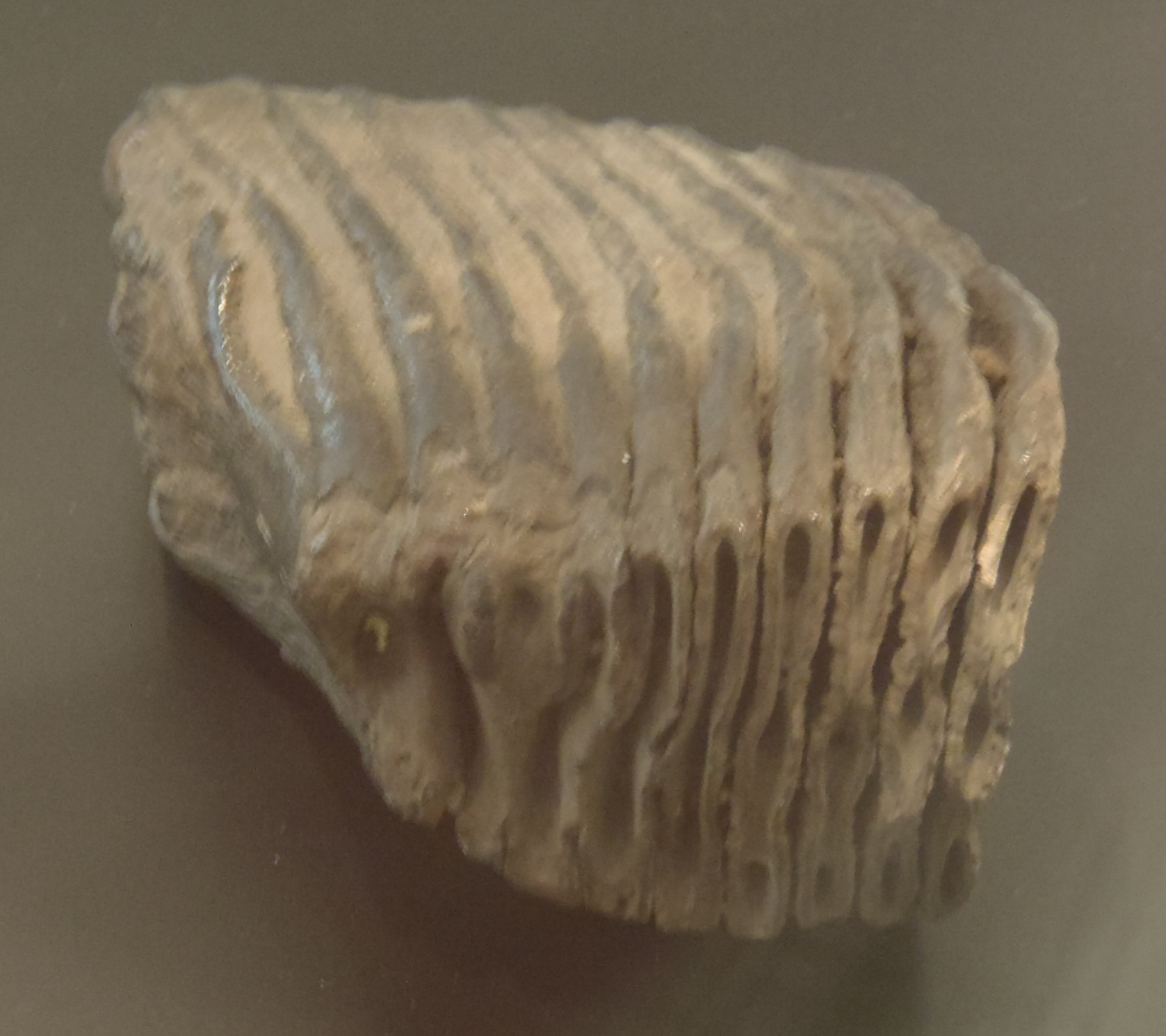 From the Nationalmuseet, Copenhagen, Denmark. Their description is "elephant molar from Seest, eastern Jutland. Not geologically dated".